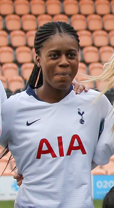 London Bees v Tottenham Hotspur LFC, 10 February 2019 - Tottenham Hotspur starting team photo.